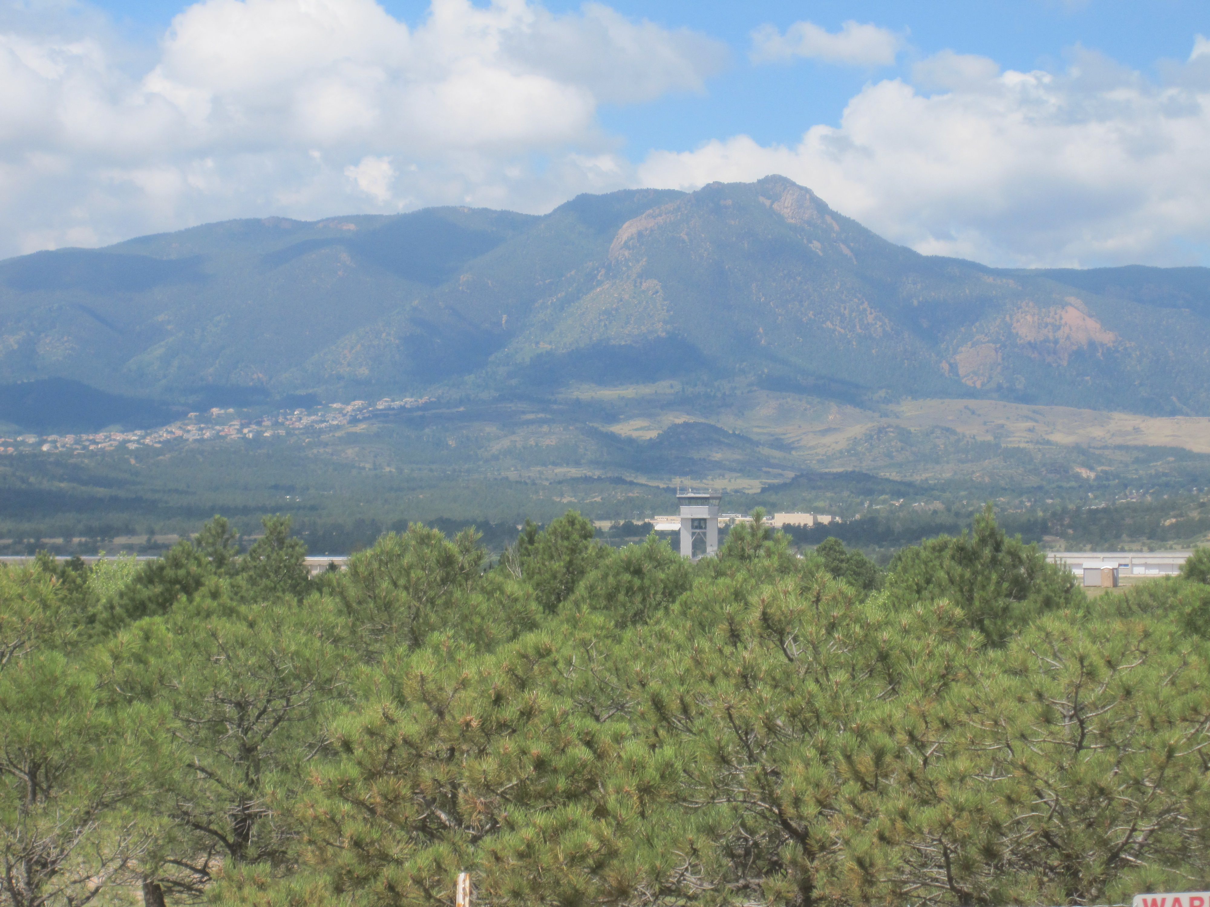 I took photo with Canon camera in Colo. Spgs., CO. (View overlooks the U.S. Air Force Academy Airfield and neighborhoods of Northwest Colorado Springs.)